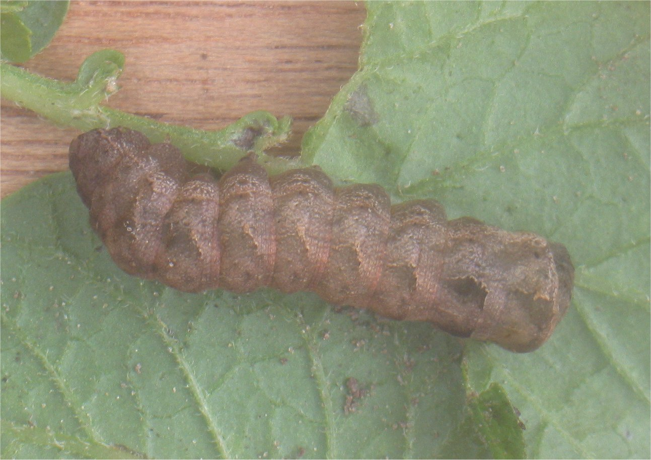 Xestia triangulum on Solanun tuberosum leave